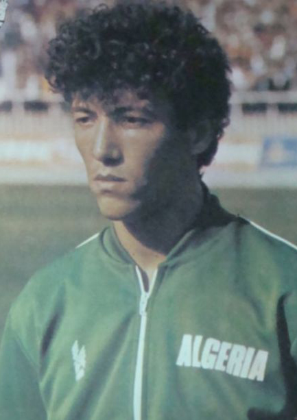 Chabanne Merzekane 1982 WC Algeria line-up